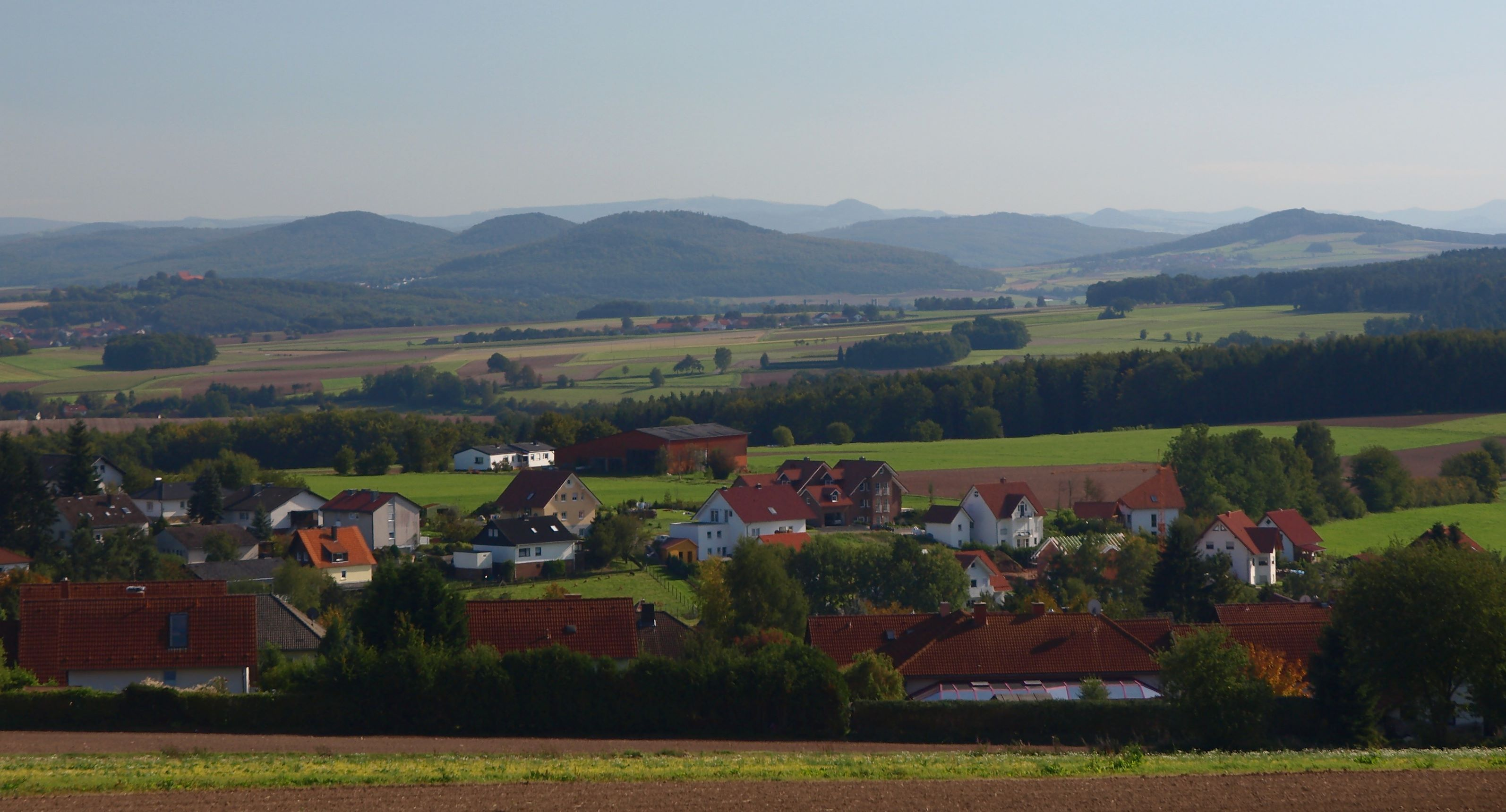 Landscape of the northwestern Rhön mountains, called hessisches Kegelspiel